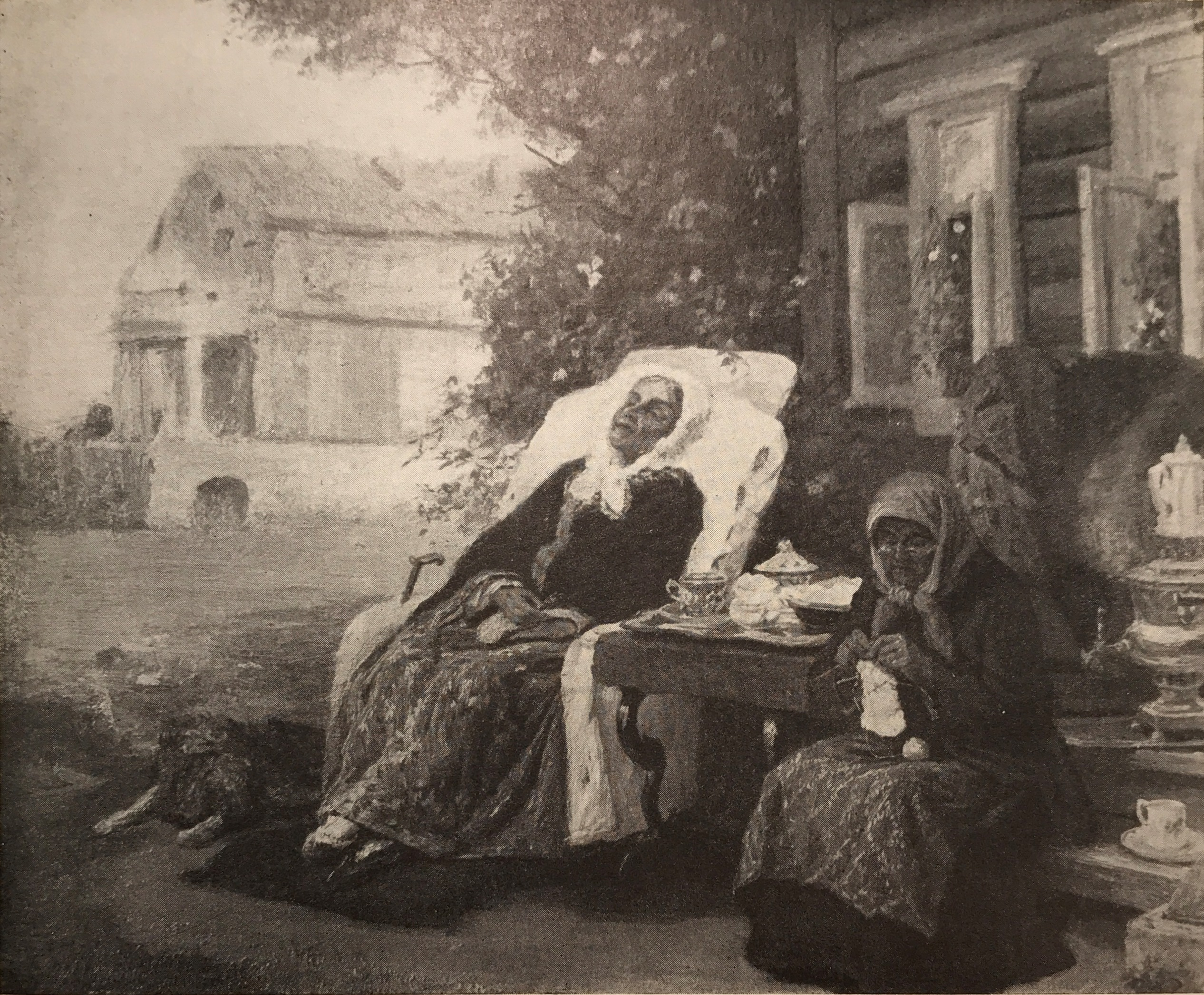 All in the past, study for a painting (by Vassily Maximov, 1885)